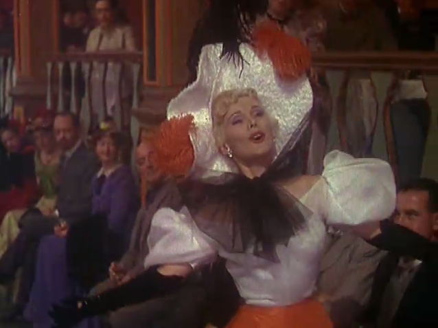 Zsa Zsa Gabor playing Jane Avril in the film Moulin Rouge (1952). Her costume was designed and made by Elsa Schiaparelli.